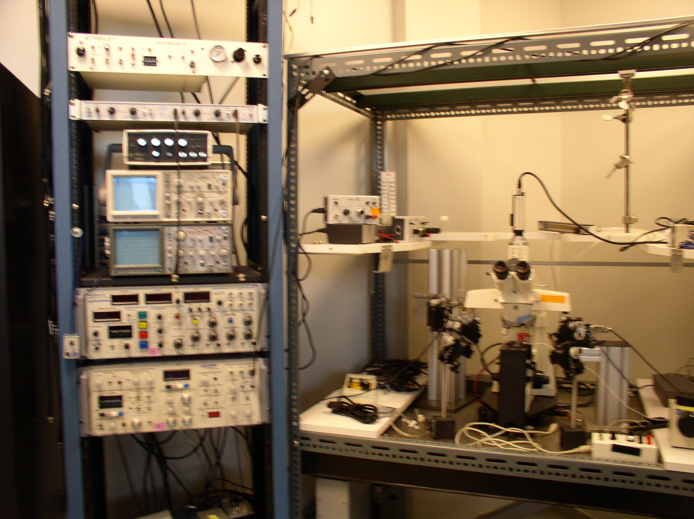 the defunct rig